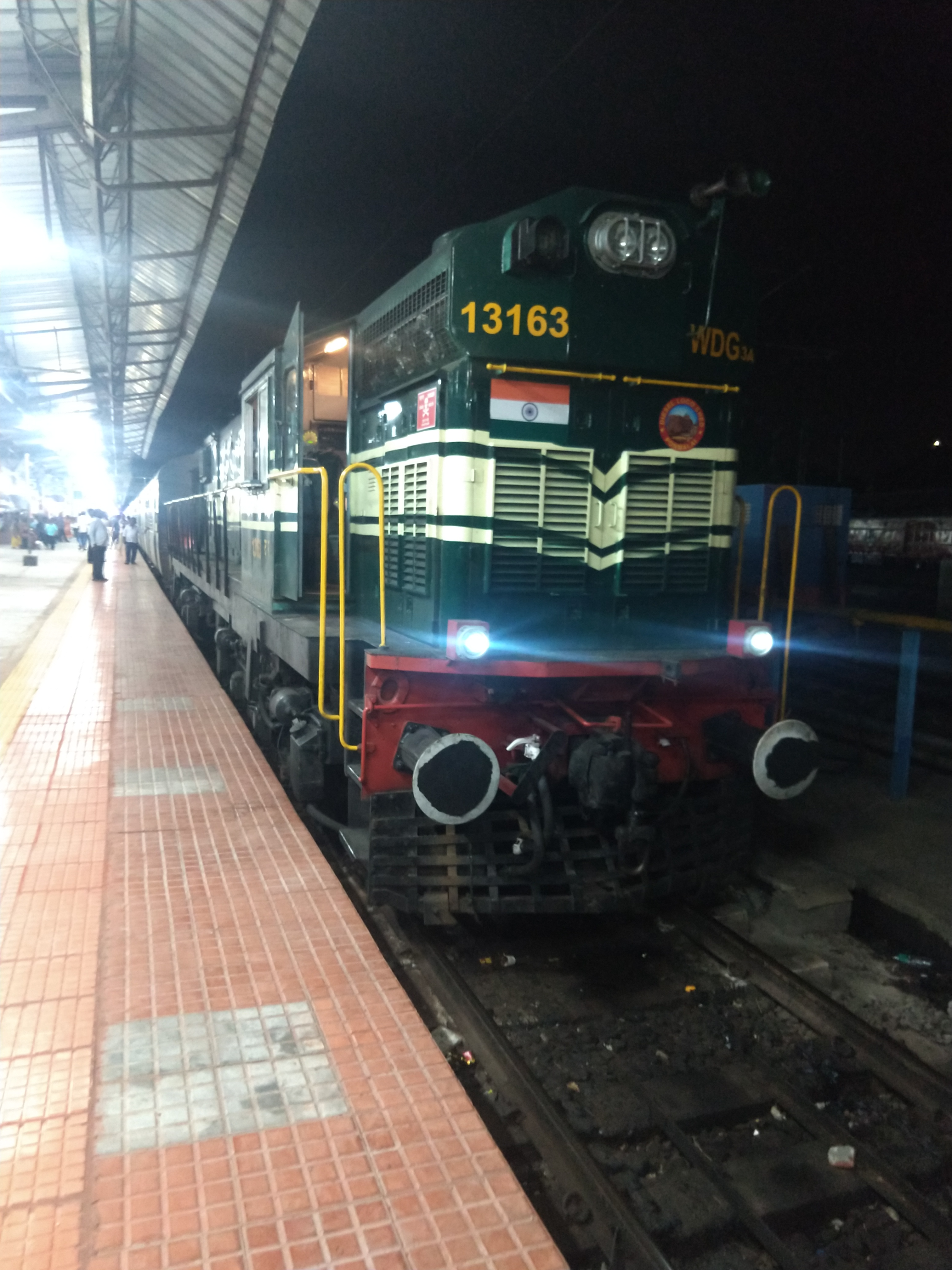 Trail halted at Trichy Junction